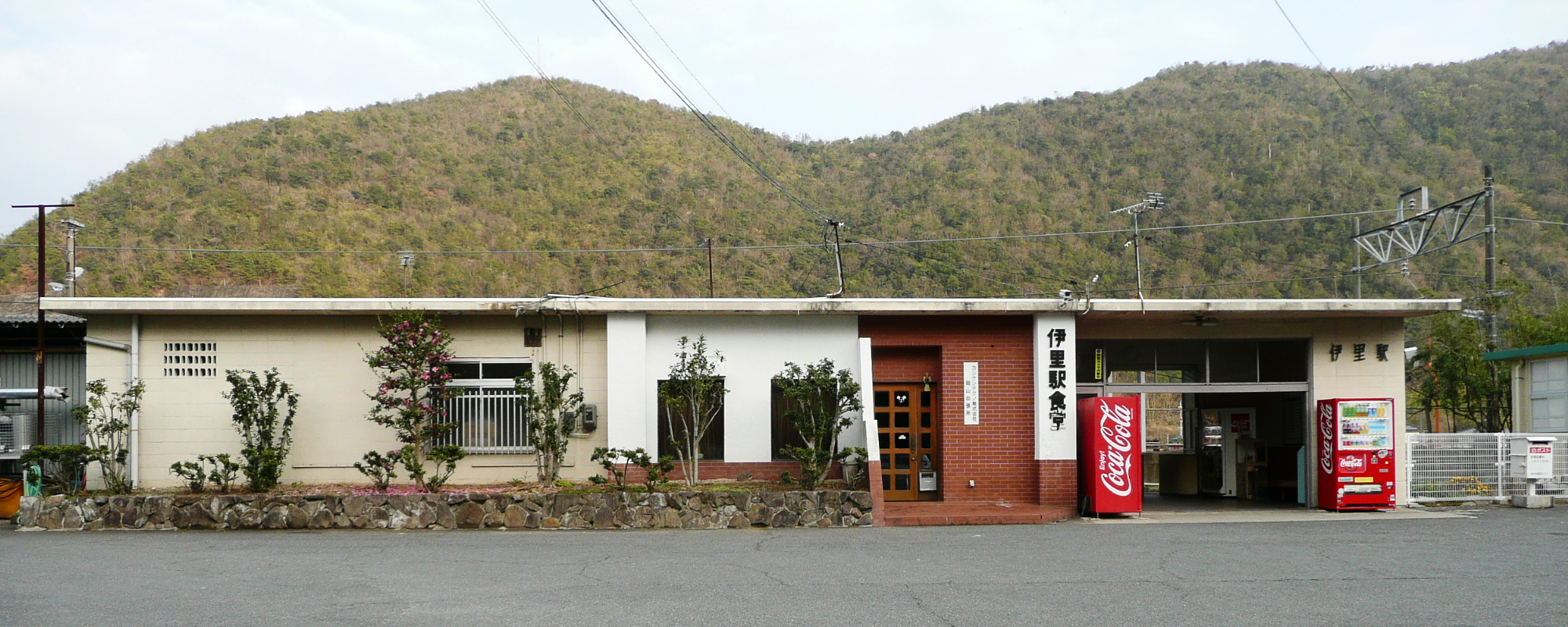 West Japan Railway Ako Line Iri Station. / 赤穂線伊里駅